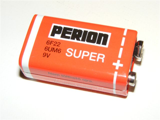 Electric dry battery 9Volt, 6F22 size, made in Hungary by manufacturer Perion